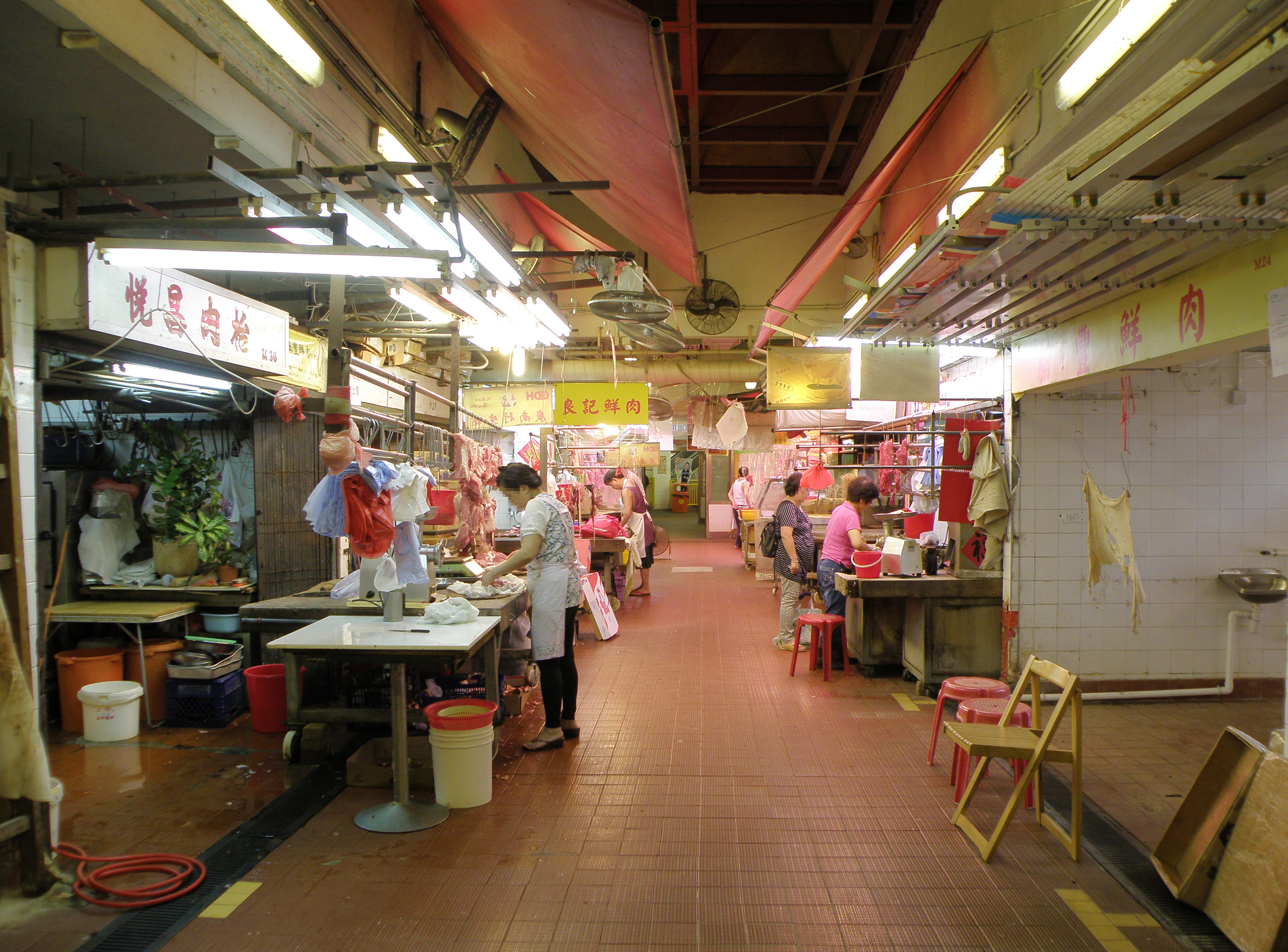 Market in Ngau Chi Wan, Hong Kong.